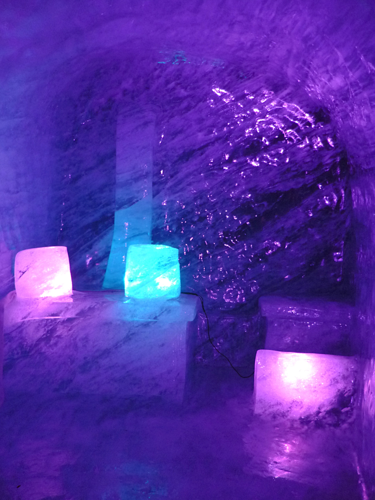 Mer de Glace Ice Cave, Chamonix-Mont-Blanc, Haute-Savoie, France